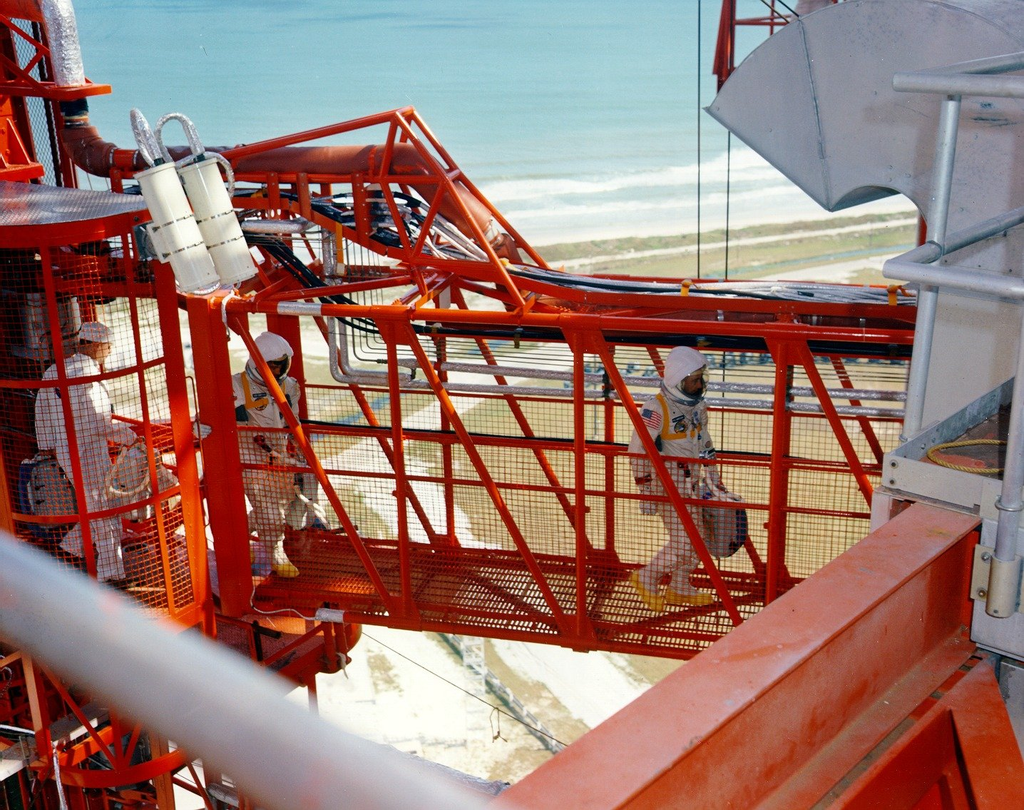 The Apollo 204 (also known as Apollo 1) crew crosses an access arm to the command module. Image ID: KSC-67PC-17